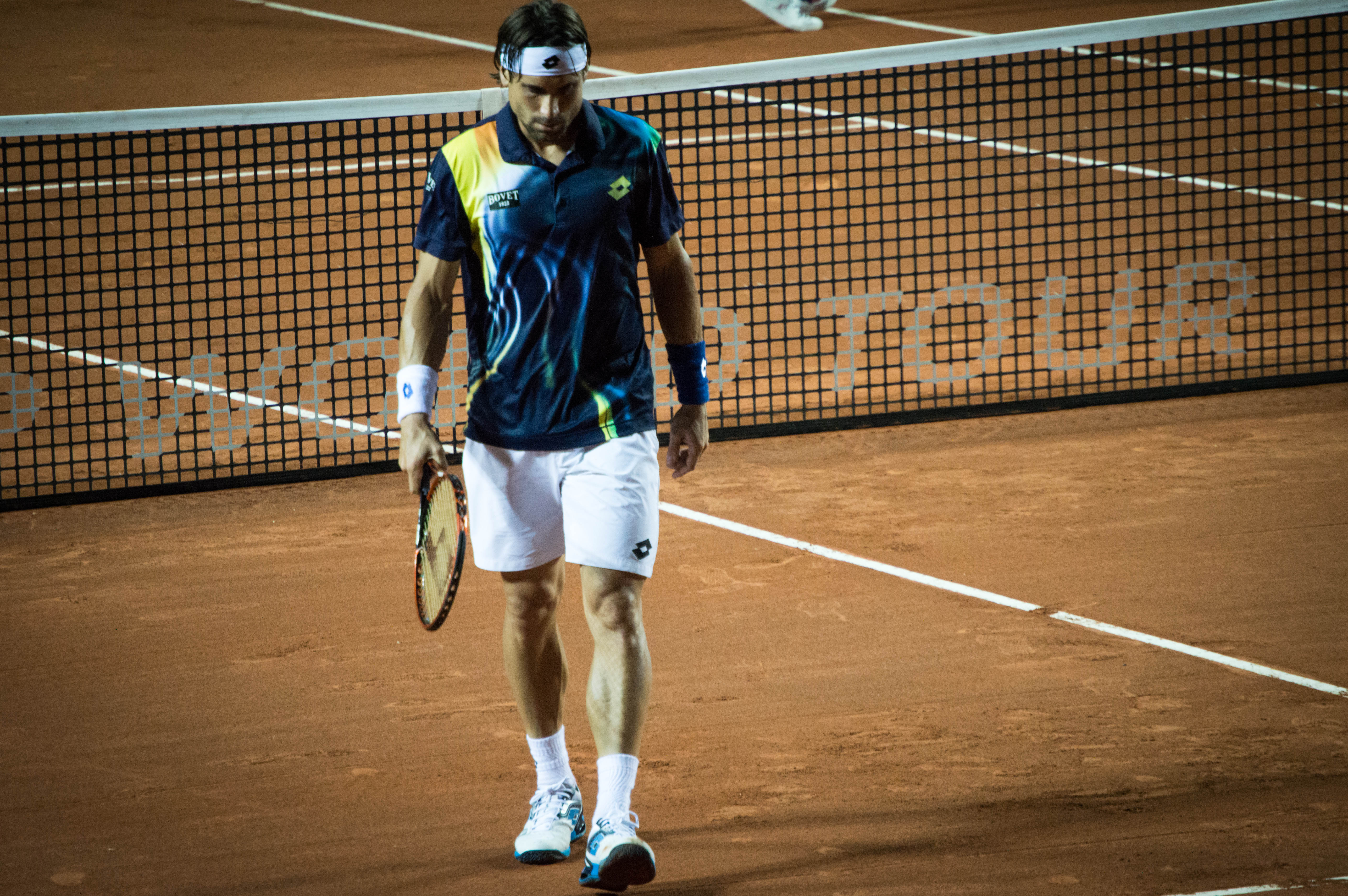 David Ferrer in action at the 2014 Italian Open